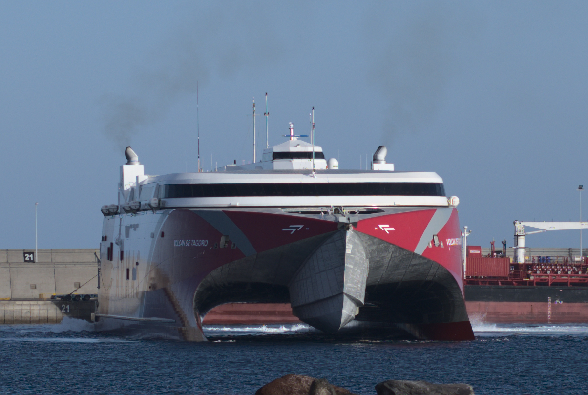 (null)